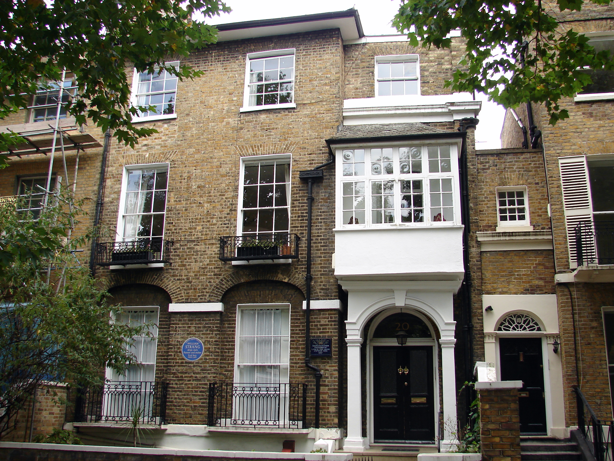 20 Hamilton Terrace, London NW8 9UG with plaques to George Alexander Macfarren and William Strang